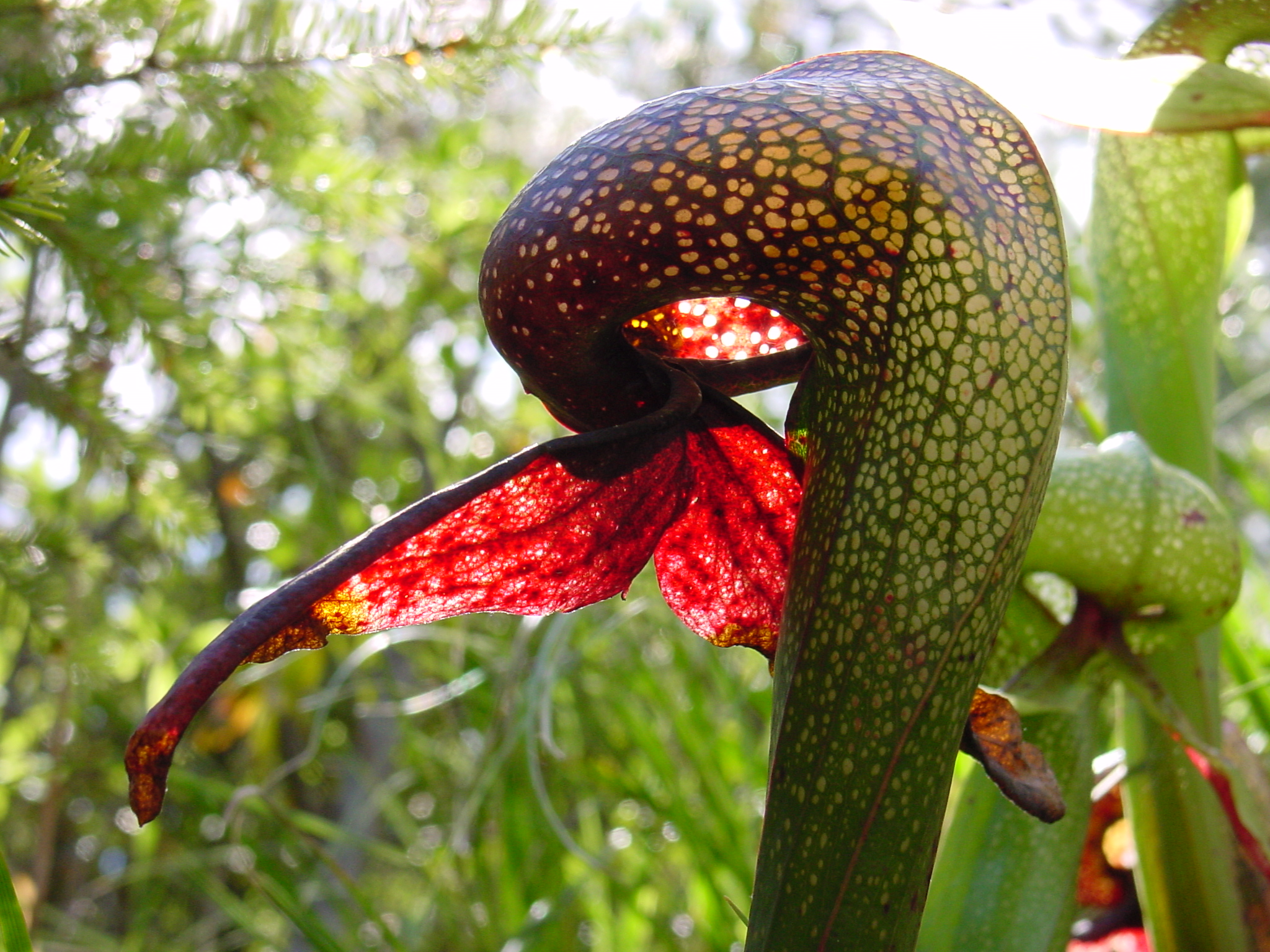 Description:Darlingtonia californica — California pitcher plant. Location: Rocky Creek Trail, Oregon. Picture taken by: NoahElhardt Date: 7/8/05